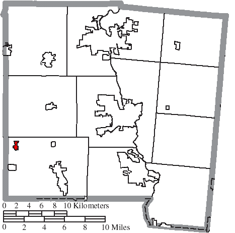 Map of the municipal and township boundaries of Miami County, Ohio, United States, as of the 2000 census, with the location of the village of Laura highlighted. Township borders are shown only in unincorporated areas in order to differentiate incorporated and unincorporated areas more clearly.